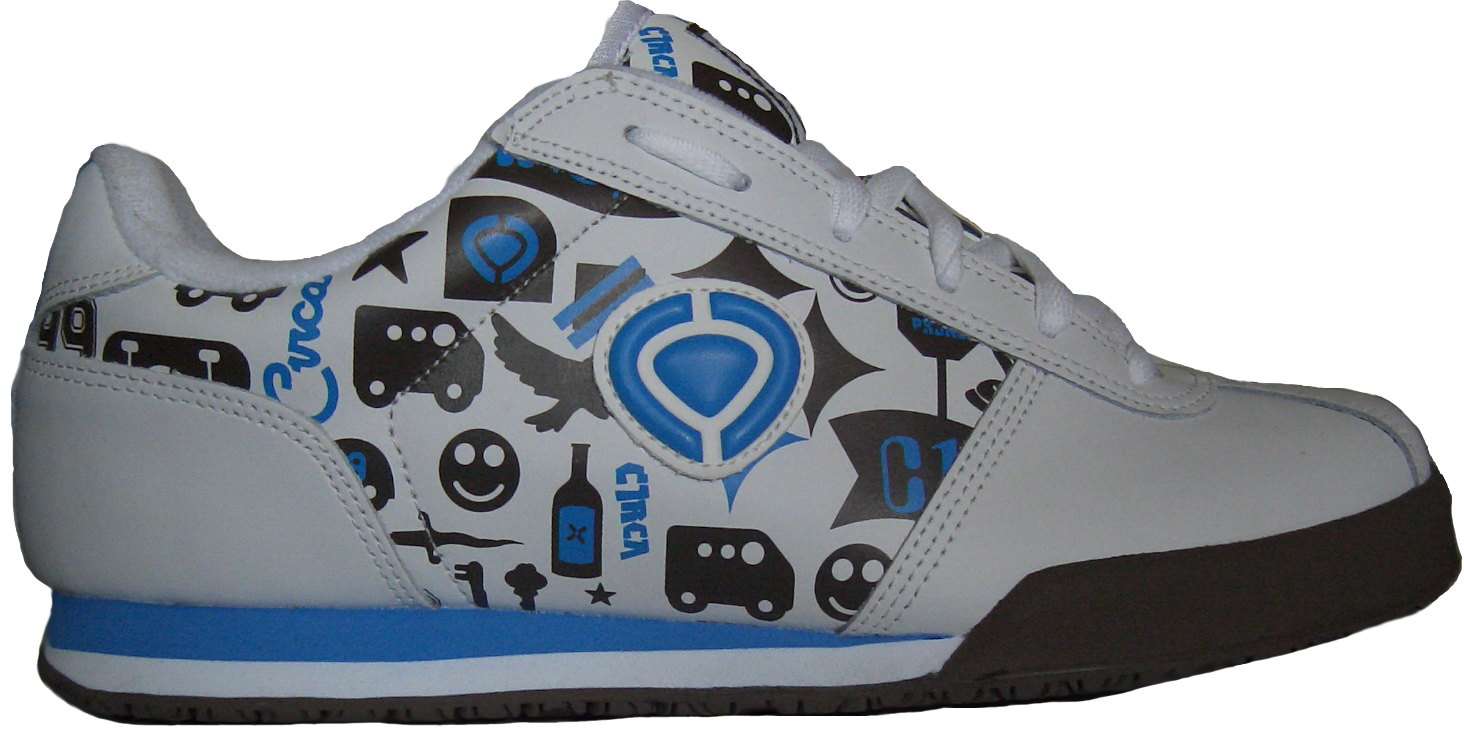 C1rca shoe (CX 101)